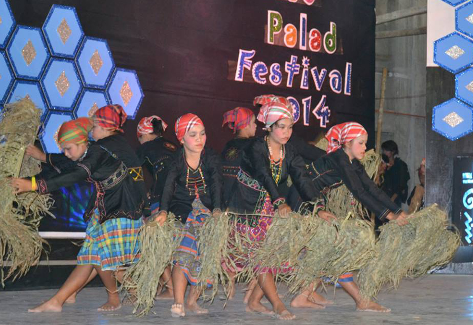 Subanen women staging a cultural performance